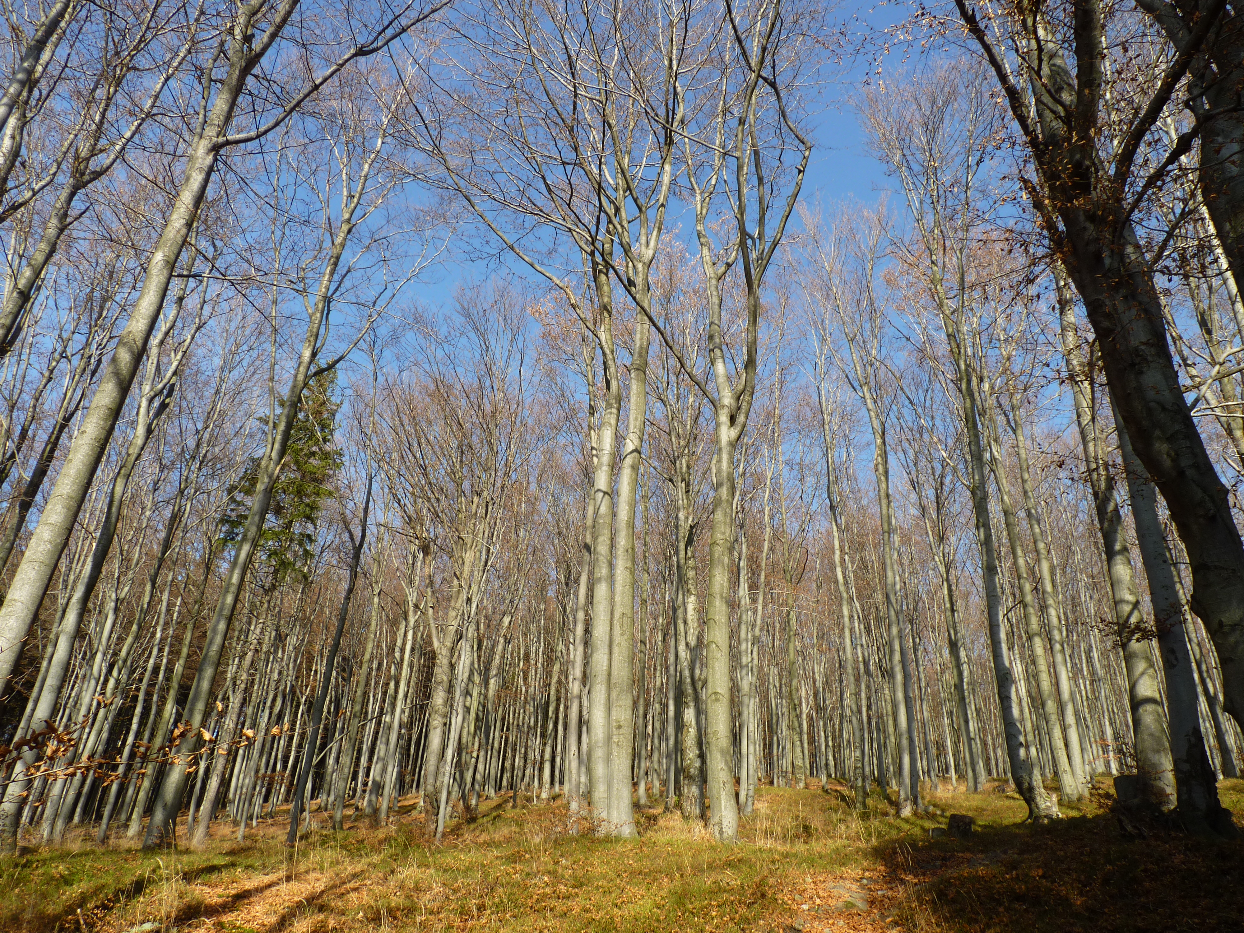 Čantoryje (nature reserve), Frýdek-Místek District, Silesian Beskids, Czech Republic